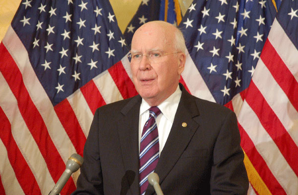 Senator Patrick Leahy takes questions at a press conference devoted to the issue of online infringement.